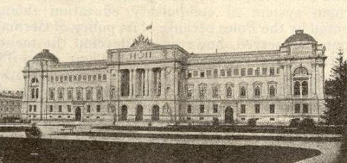 Galician Parliament in Lwow